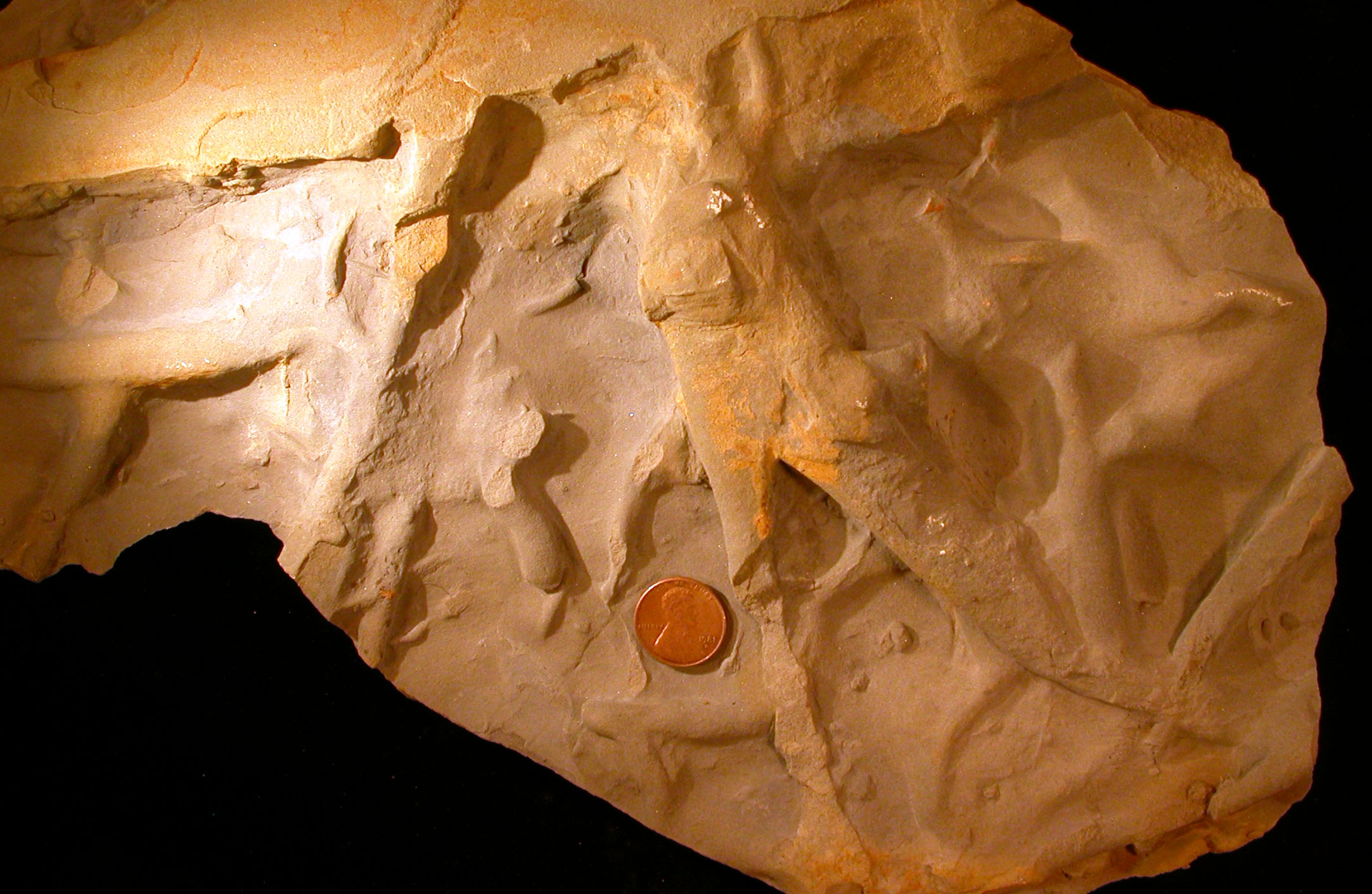 Palaeophycus ichnospecies; a trace fossil from the Logan Formation (Lower Carboniferous) of Wooster, Ohio Photograph taken by Mark A. Wilson (Department of Geology, The College of Wooster). [1]